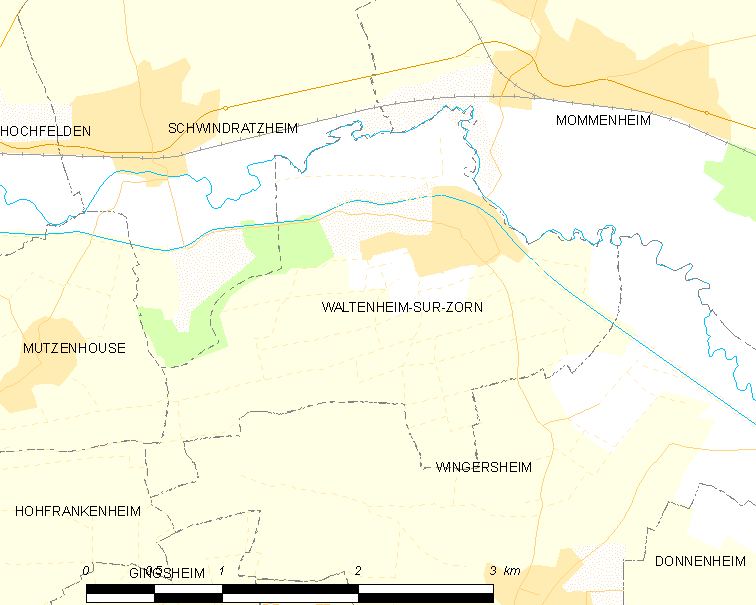 Map of French municipality